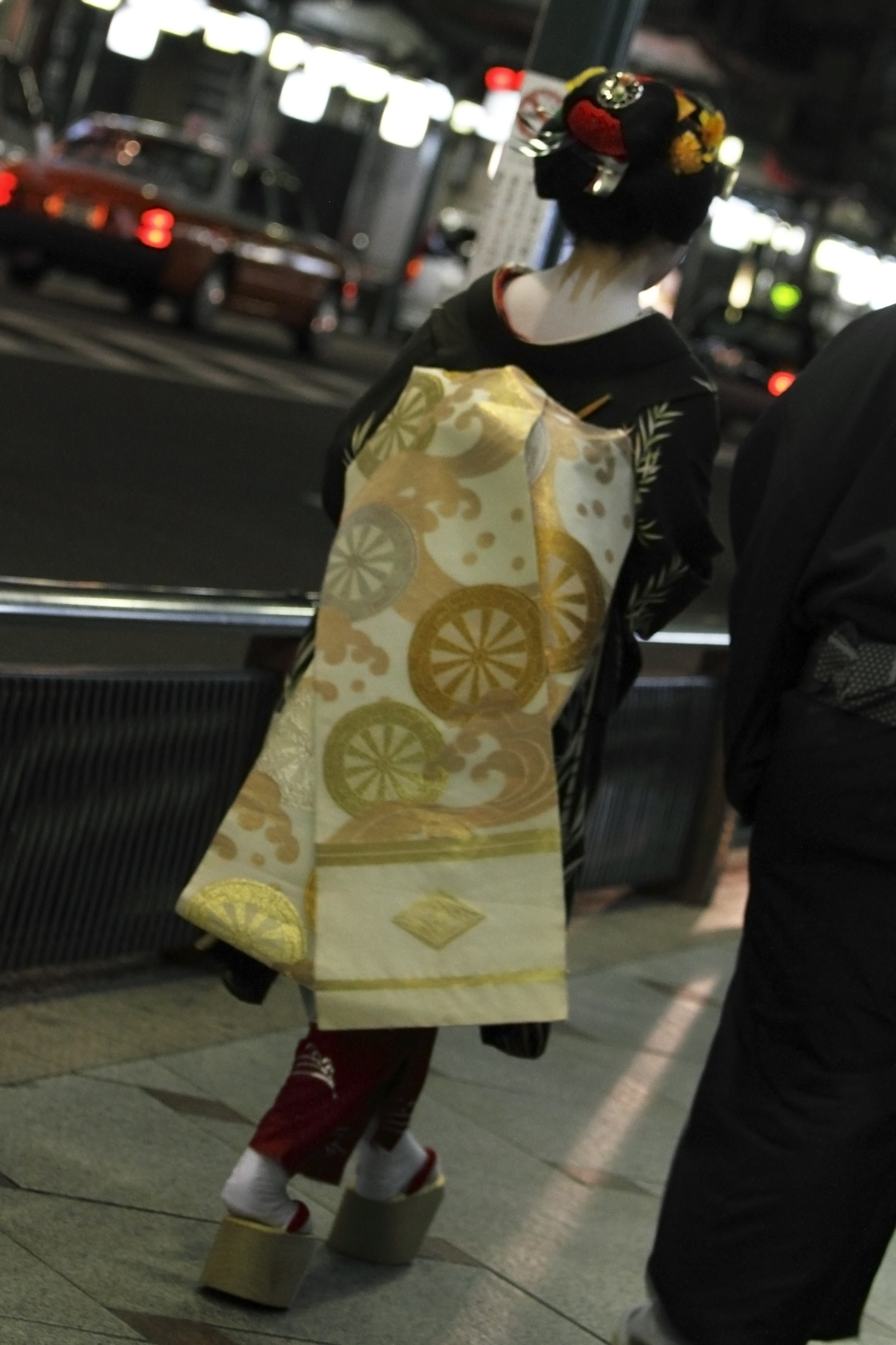 The day of misedashi, when a minarai becomes a maiko, geiko apprentice. Katsuyakkou of Odamoto okiya.